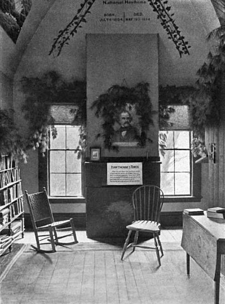 Photograph of the "tower room" or "Owl's Nest" at The Wayside in Concord, Massachusetts. This room was added by author Nathaniel Hawthorne and is where he did his writing while living in the house. It was redecorated by Margaret Sidney when she became the home's owner.